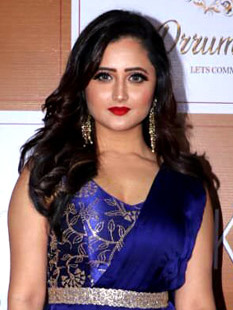 Rashami Desai at Prince Narula & Yuvika Chaudhary’s mehendi ceremony